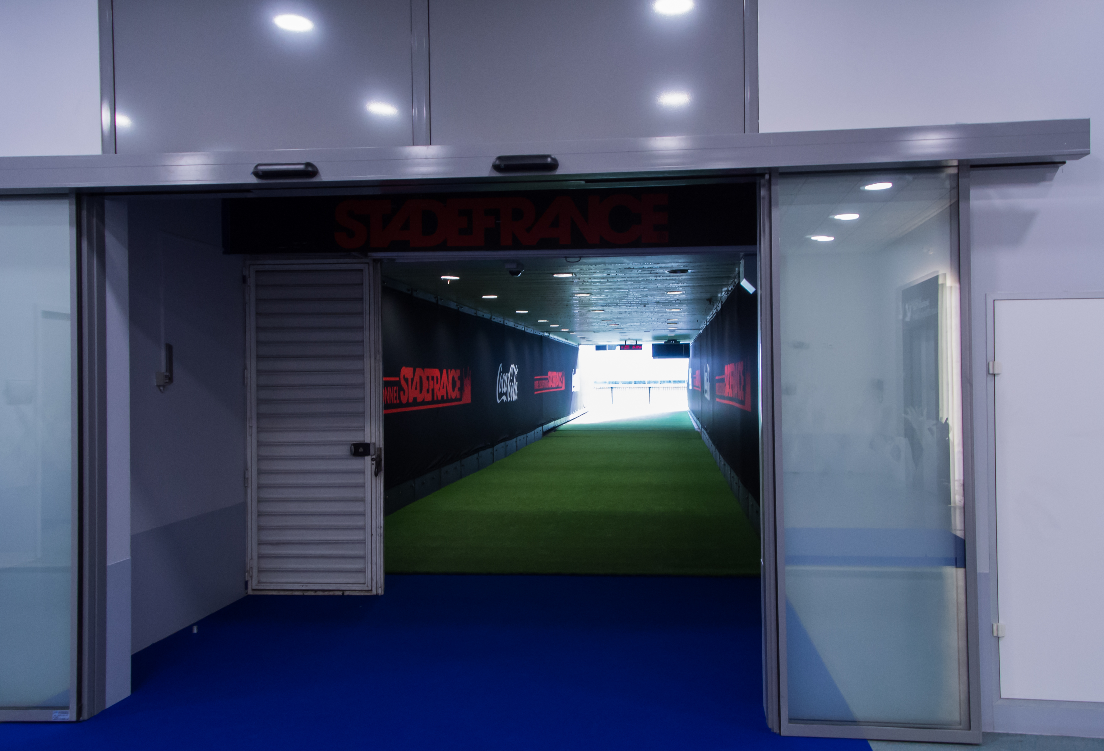 Players' entry corridor to the field in the Stade de France